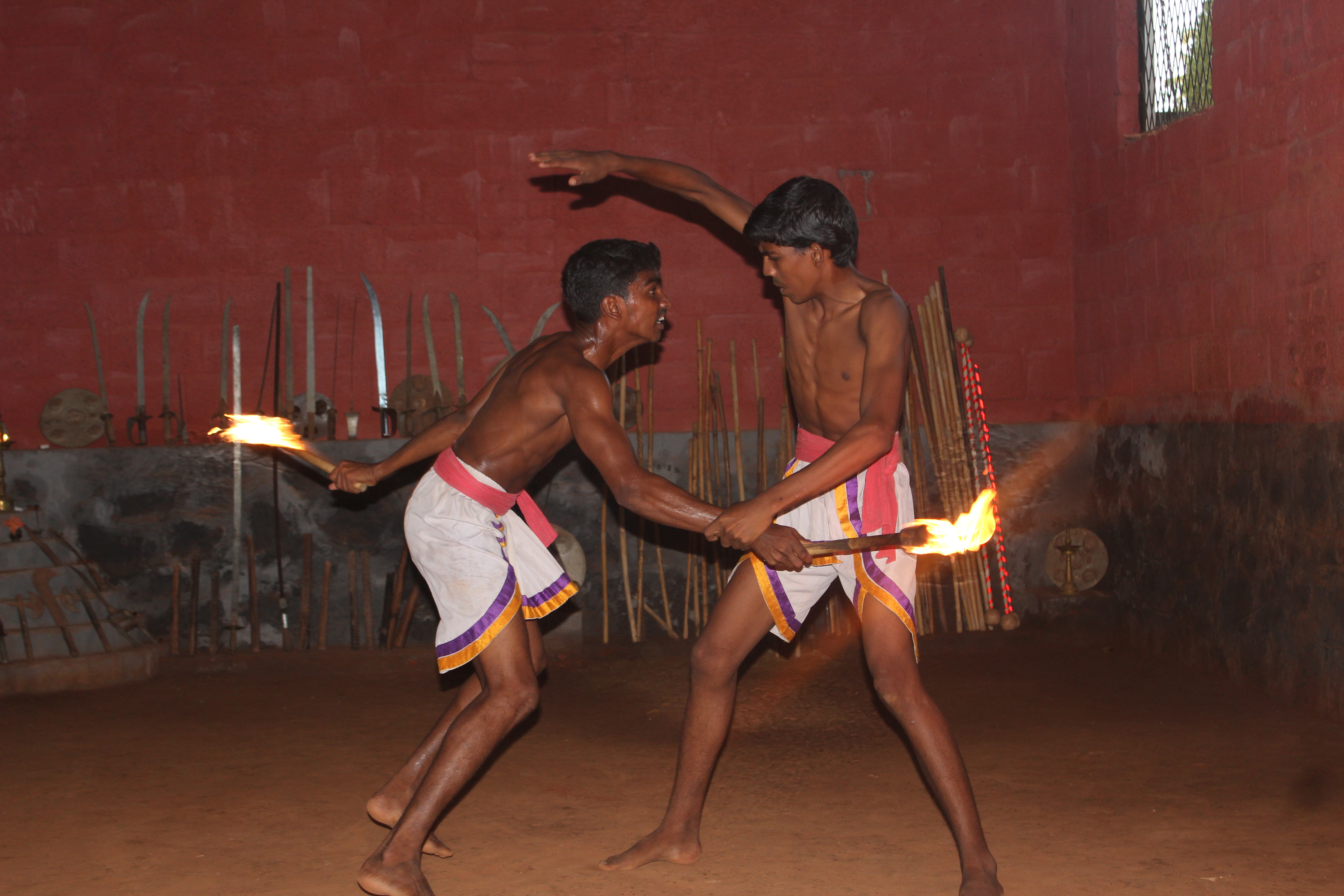 Kalaripayattu performance 2